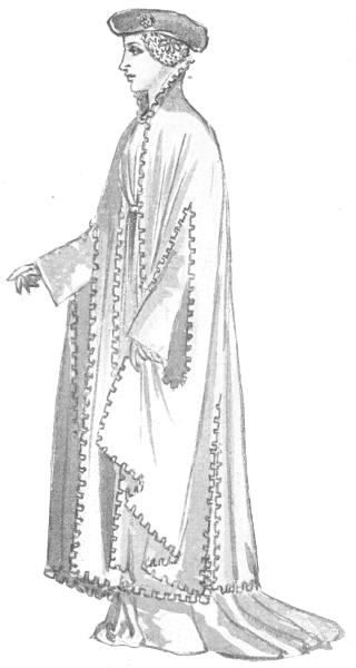 15th century costume - the Houppelande - illustration by Percy Anderson for Costume Fanciful, Historical and Theatrical, 1906